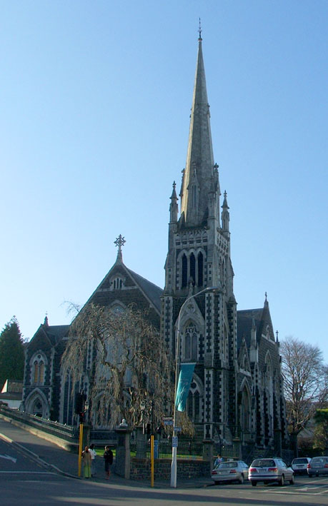 Knox Church, New Zealand, photographed by James Dignan (User:Grutness) on August 31, 2008